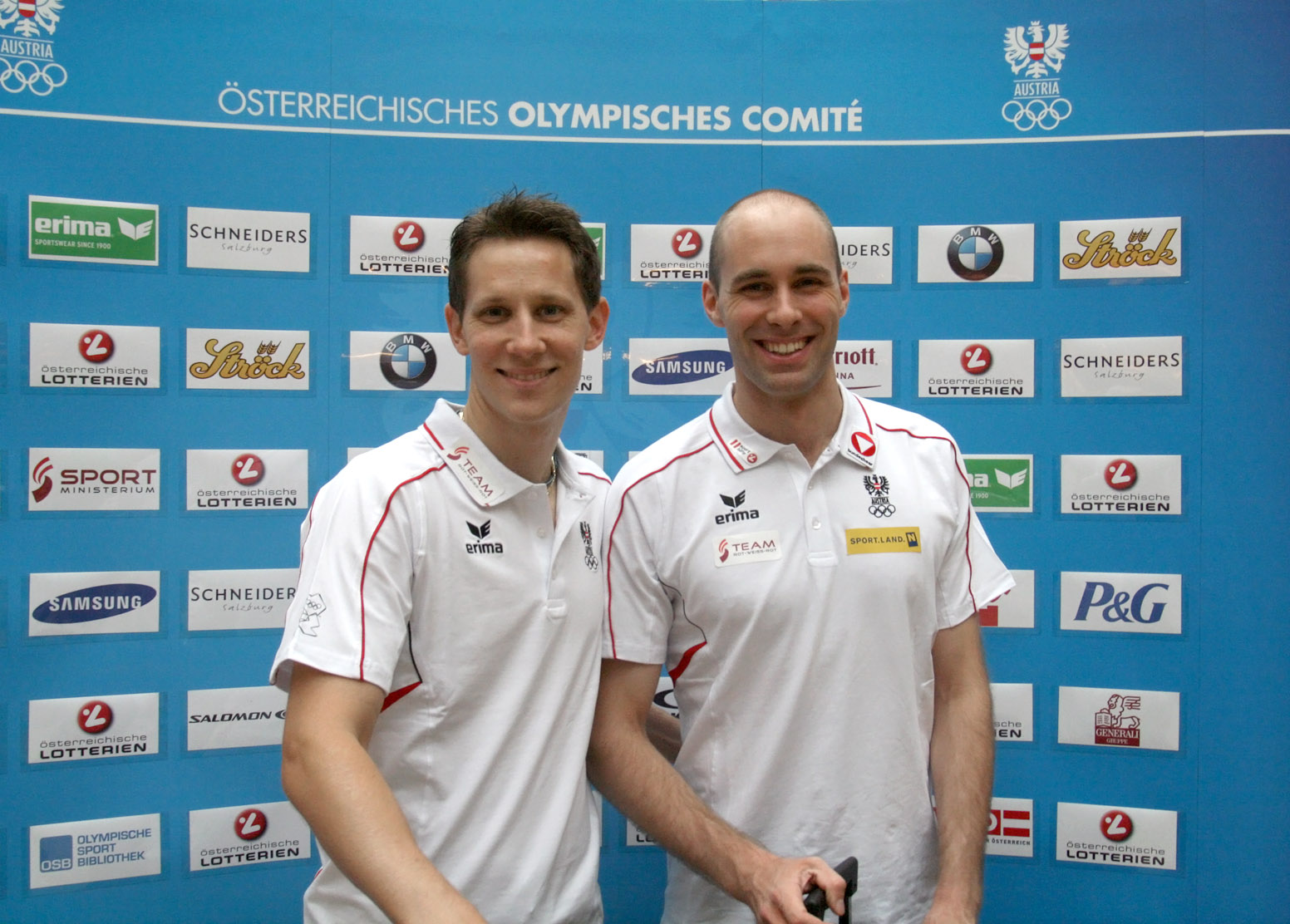 Table tennis players Robert Gardos and Daniel Habesohn at the hand-out of the Austrian teams official attire for the 2012 Summer Olympics in London (Marriott, Vienna).